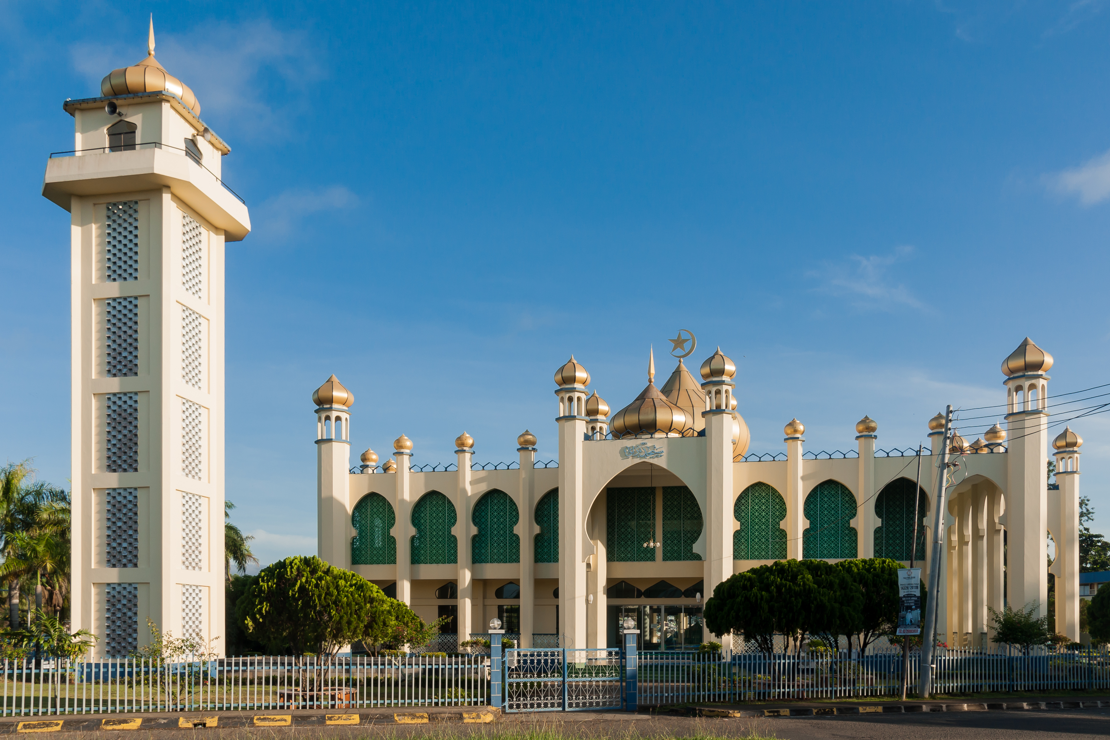 Tawau, Sabah: Masjid Raya Tawau